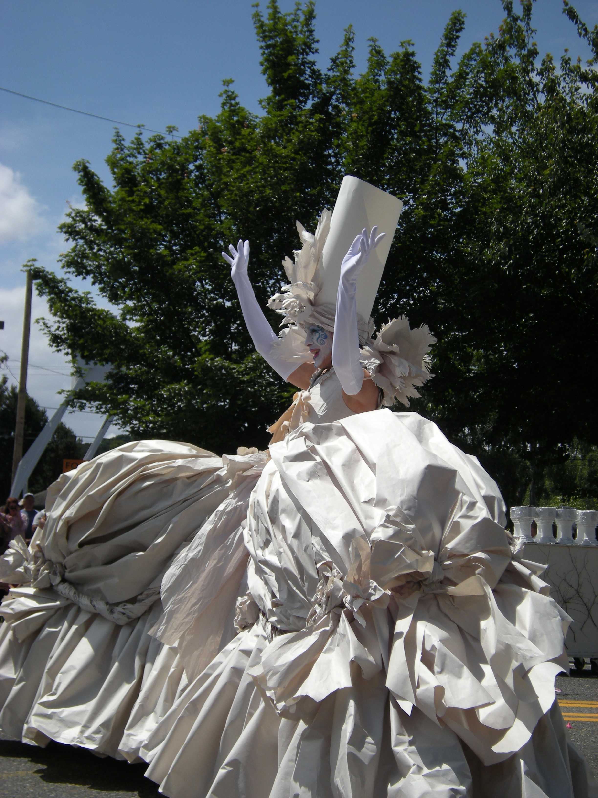 Elaborate white costume, Summer Solstice Parade, Fremont, Seattle, Washington.